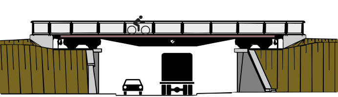 Freight car bridge in Heiligenhaus Kreis Mettmann Germany